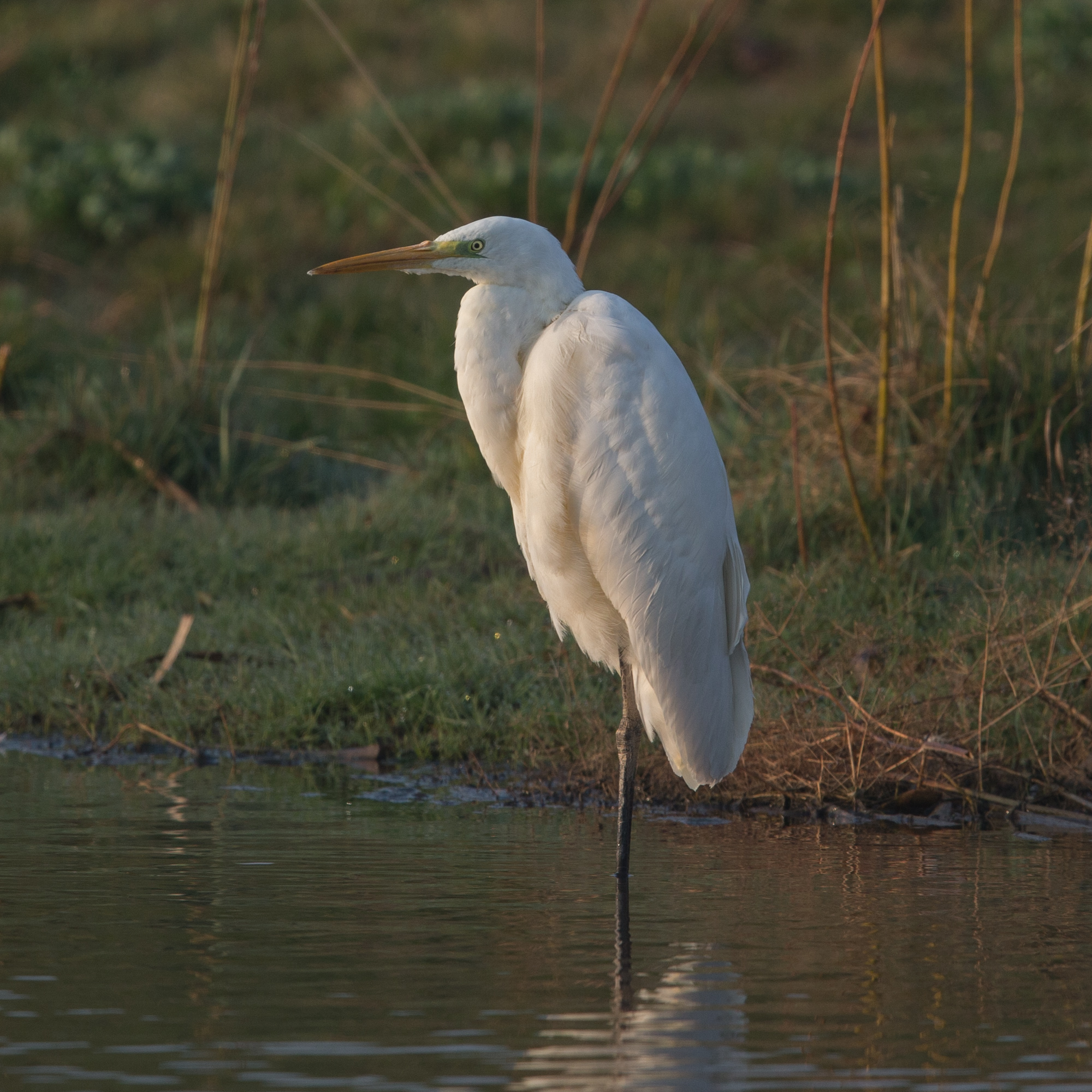 Great Egret